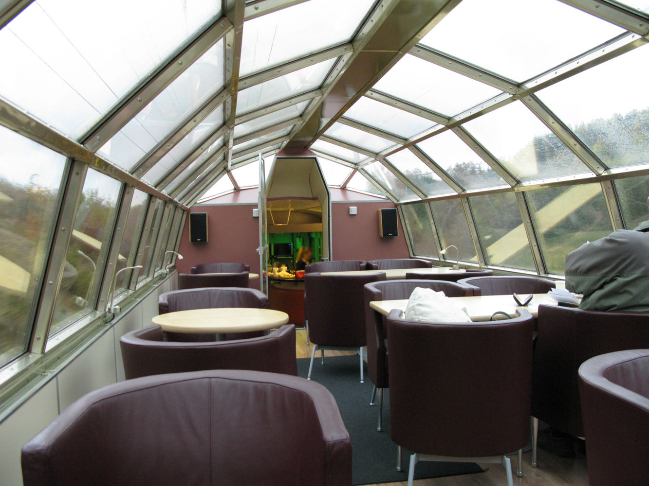 Panoramic view of central Stockholm from the Netrail P1 dome car.